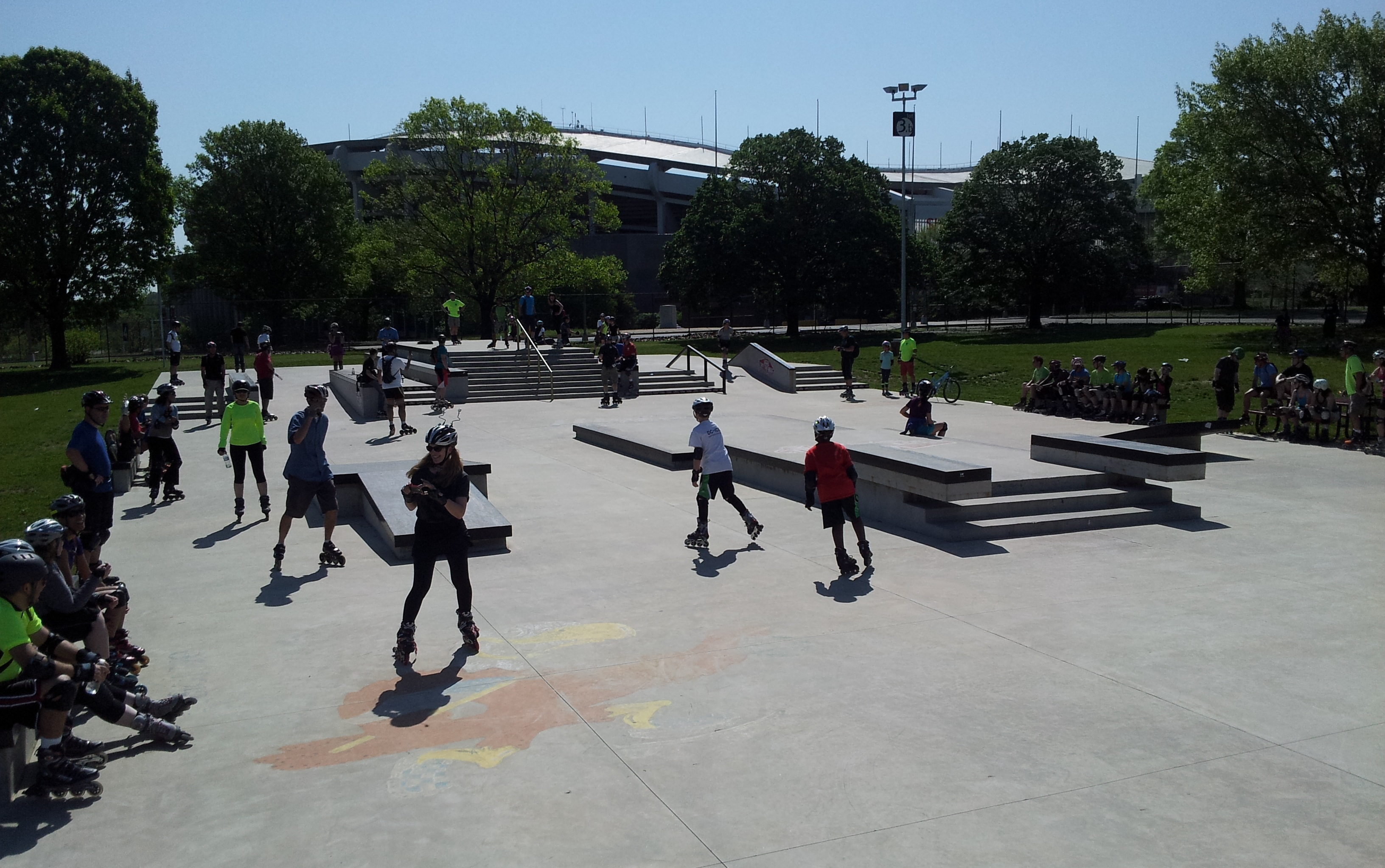 Inline Skaters visit Maloof Skate Park during Skate DC Weekend 2014